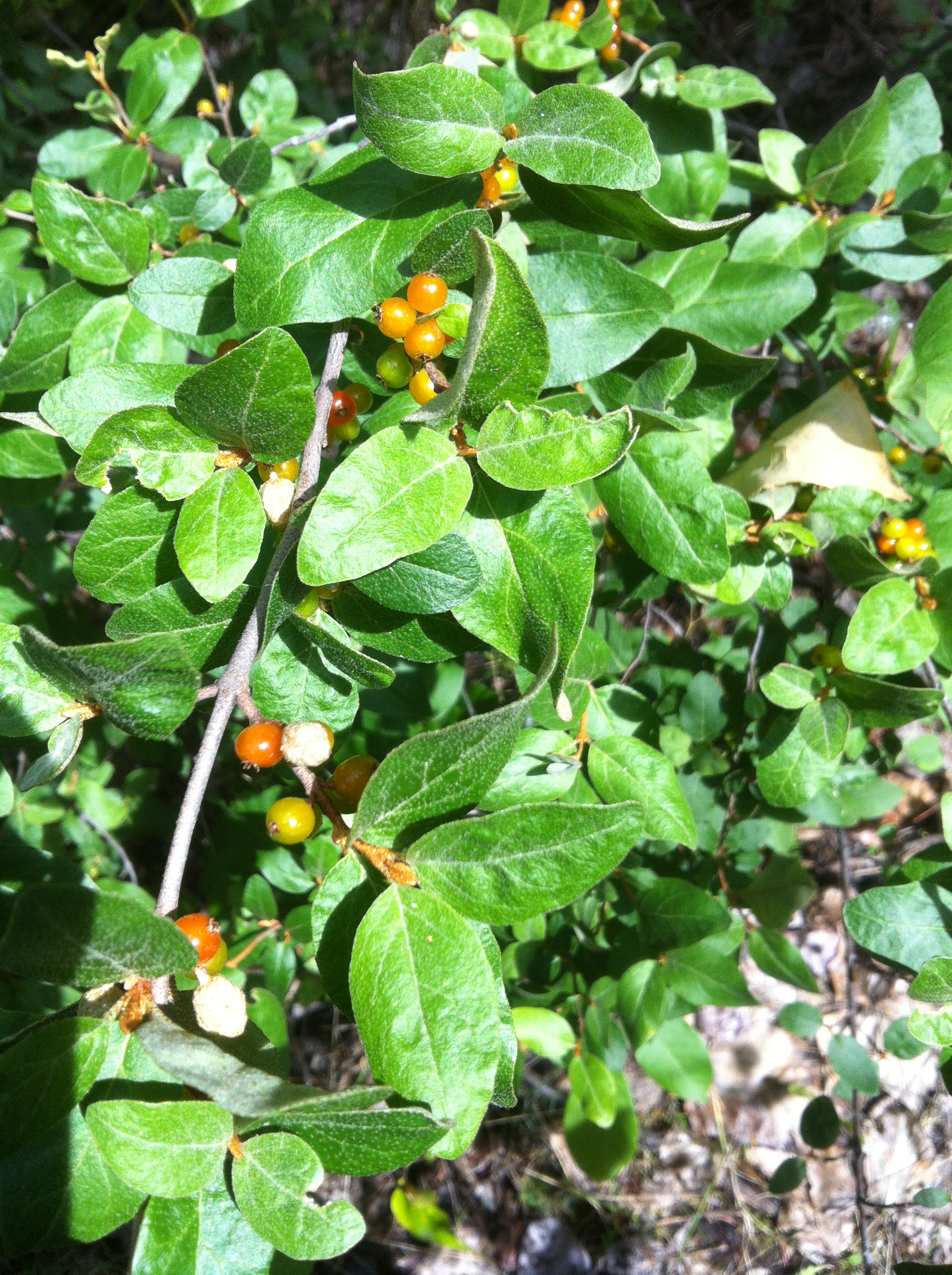 a photo of a wild berry used in making indian iced cream